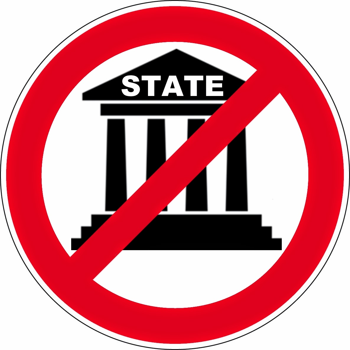 Antistate poster "Stop the State" by A. Person, license CC0, other posters